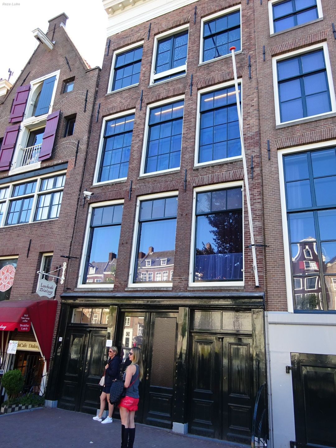 Ann Frank home